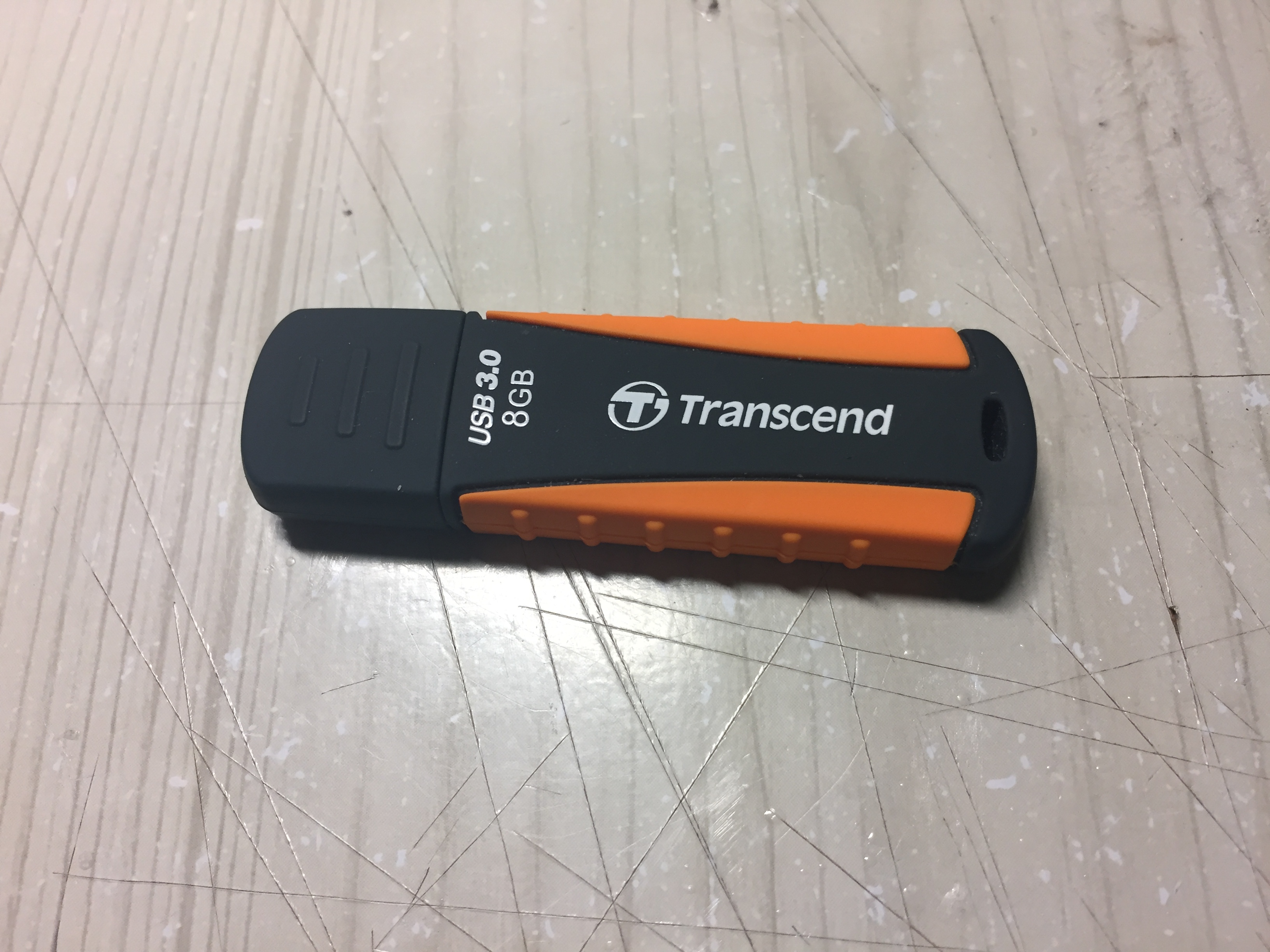 Transcend USB flash drives